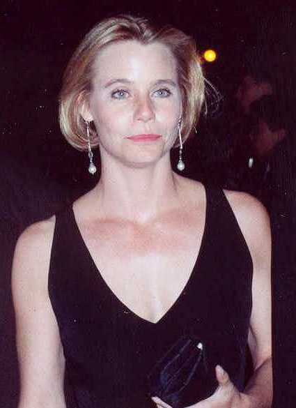 42nd Emmy Awards - Sept. 1990- Governor's Ball (cropped)